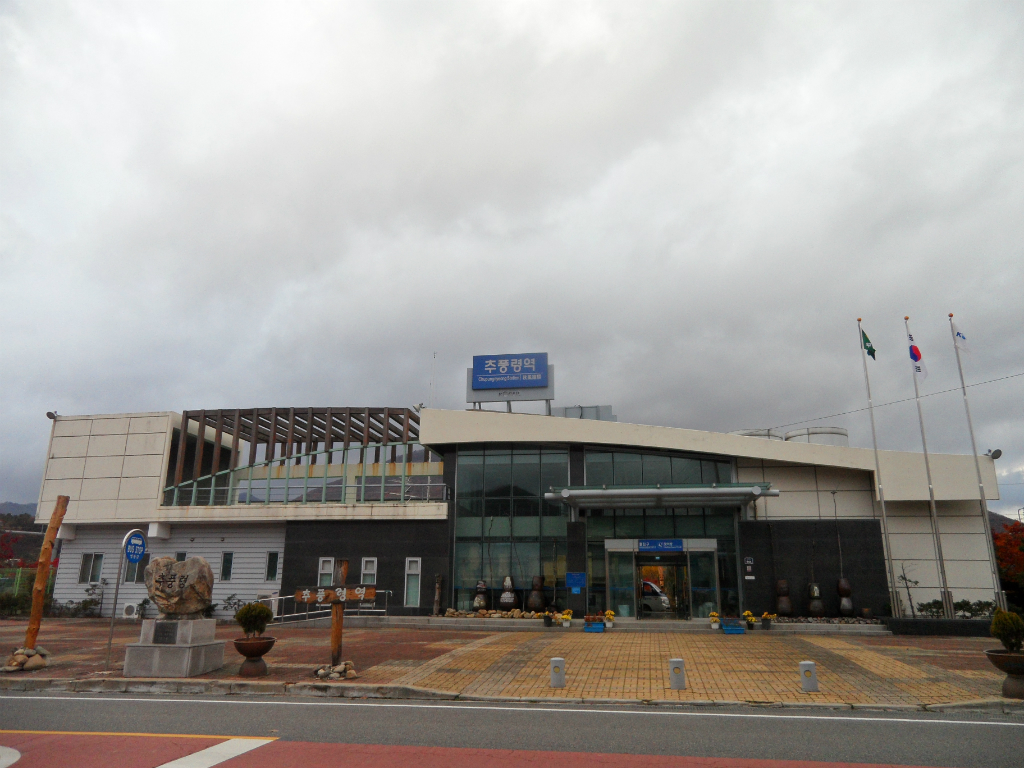 Chupungnyeong Station (Yeongdong County)